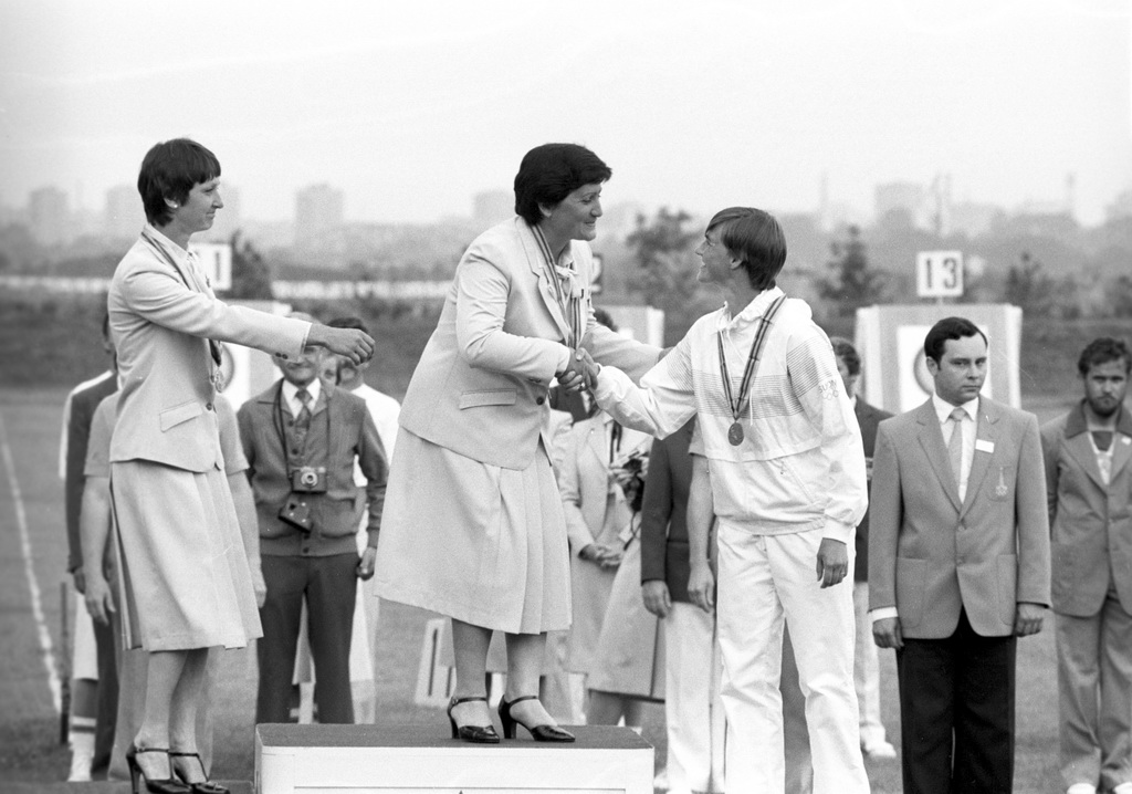 “Ketevan Losaberidze (USSR), Natalya Butuzova (USSR), Paivi Meriluoto (Finland) on the victory podium”. Ketevan Losaberidze (USSR) - I place, Natalya Butuzova (USSR) - II place, Paivi Meriluoto (Finland) - III place on the victory podium. Dinamo archery range in Mytishi. Archery competition. XXII Summer Olympic Games held in Moscow on July 19 - August 3, 1980.